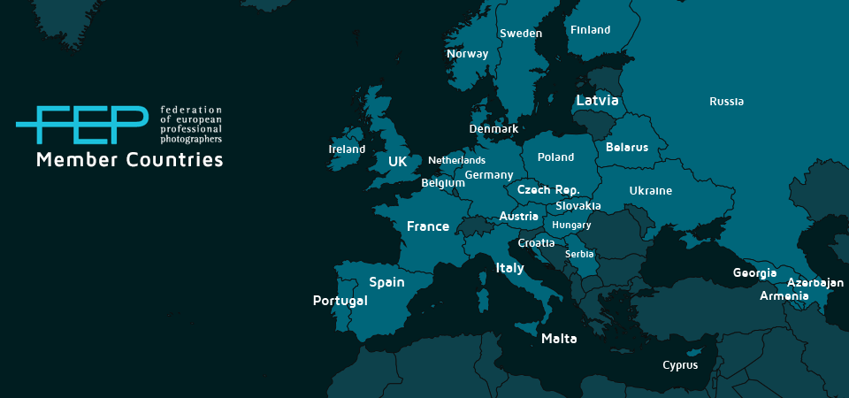 Federation of European Photohraphers member countries as for 2014